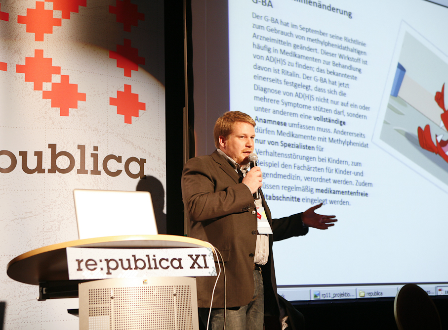 Christoph K. Weidner: "Serious Games - Seriously?", auf der re:publica 2011, (cc) Anja Pietsch/re:publica